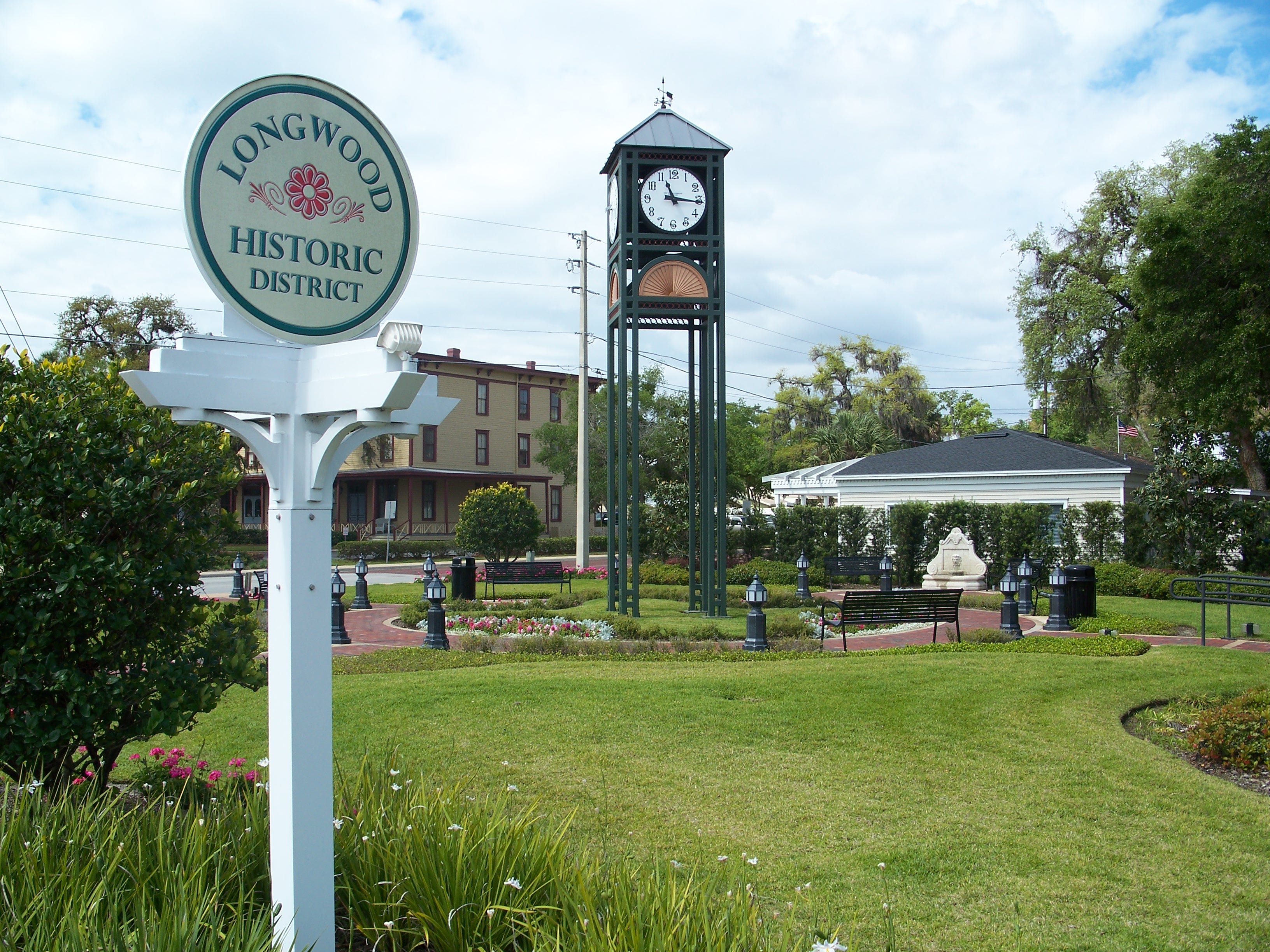 Part of the Longwood Historic District in Longwood, Florida